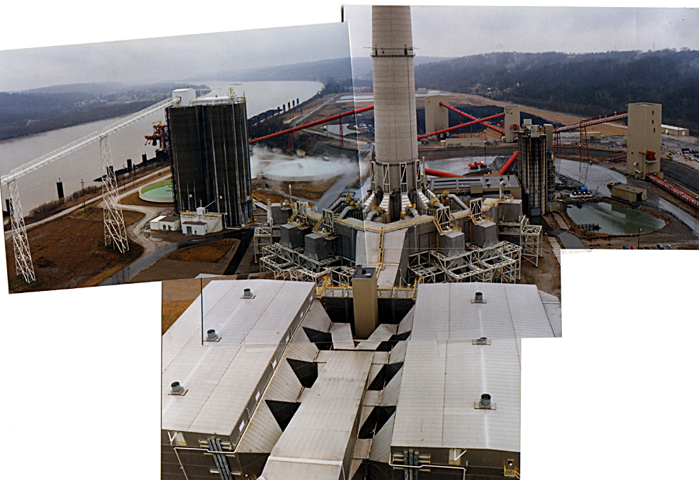 William H Zimmer Power Plant viewed from top of the stack. This picture is a photomontage.